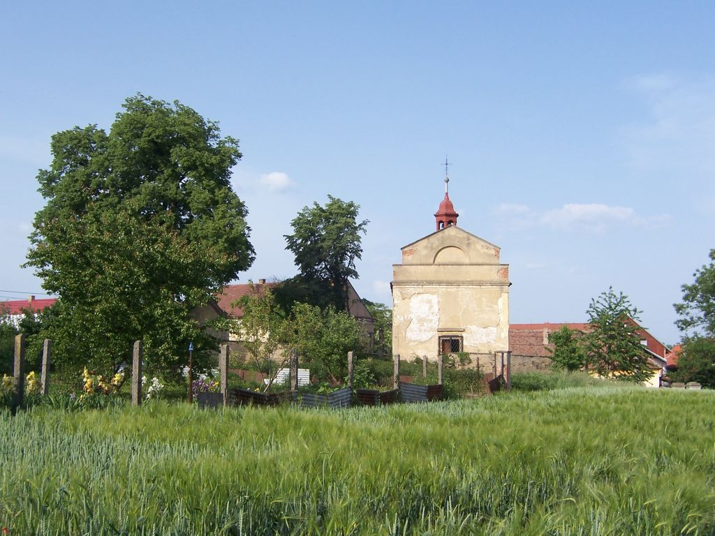 Podolanka-Cvrčovice